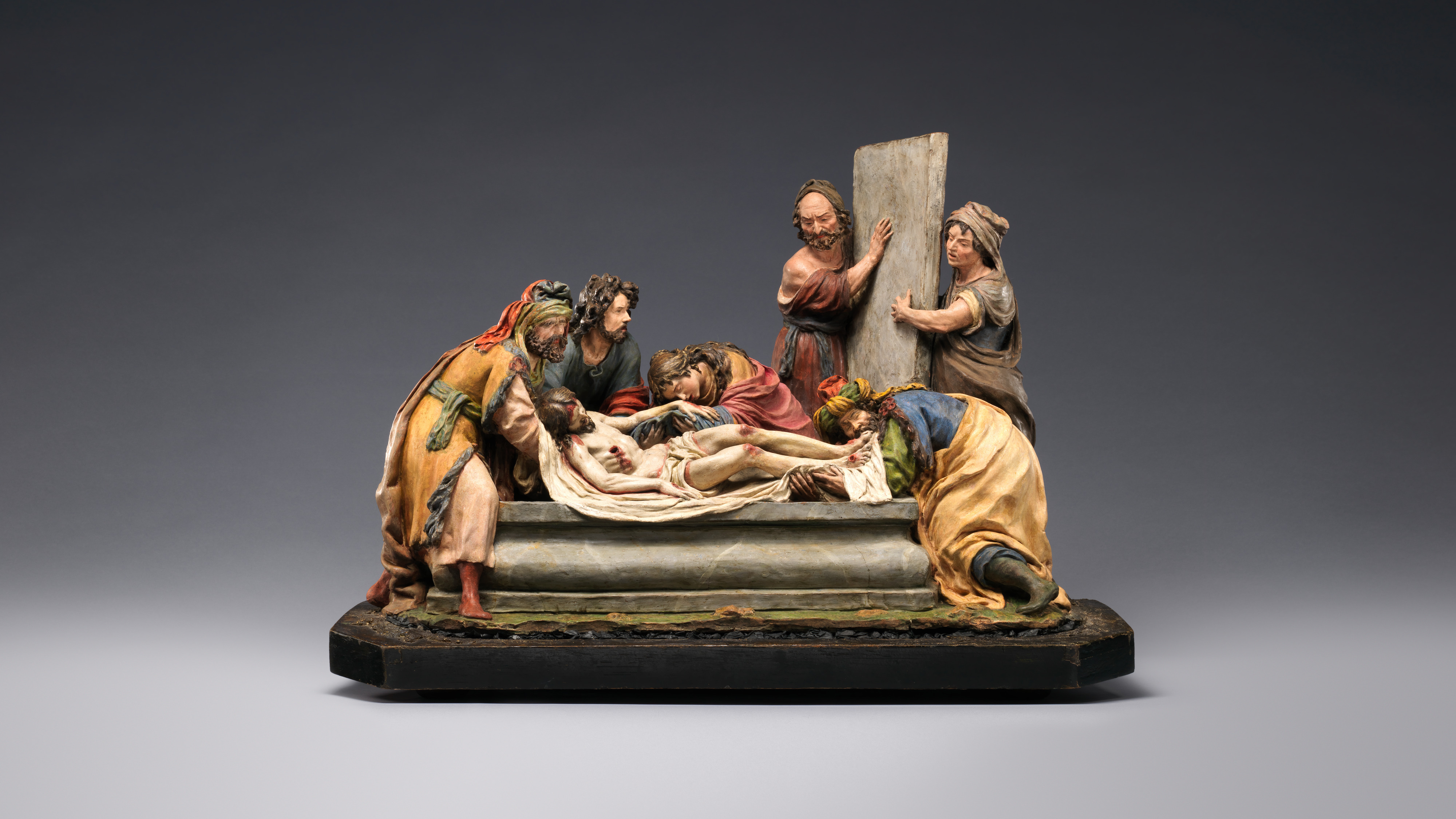 Spanish, Madrid; Statuette group; Sculpture